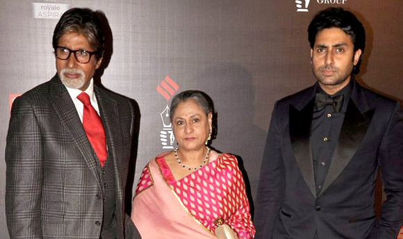 Amitabh Bachchan, Jaya Bachchan and Abhishek Bachchan at 20th annual Life OK screen Awards, 2014